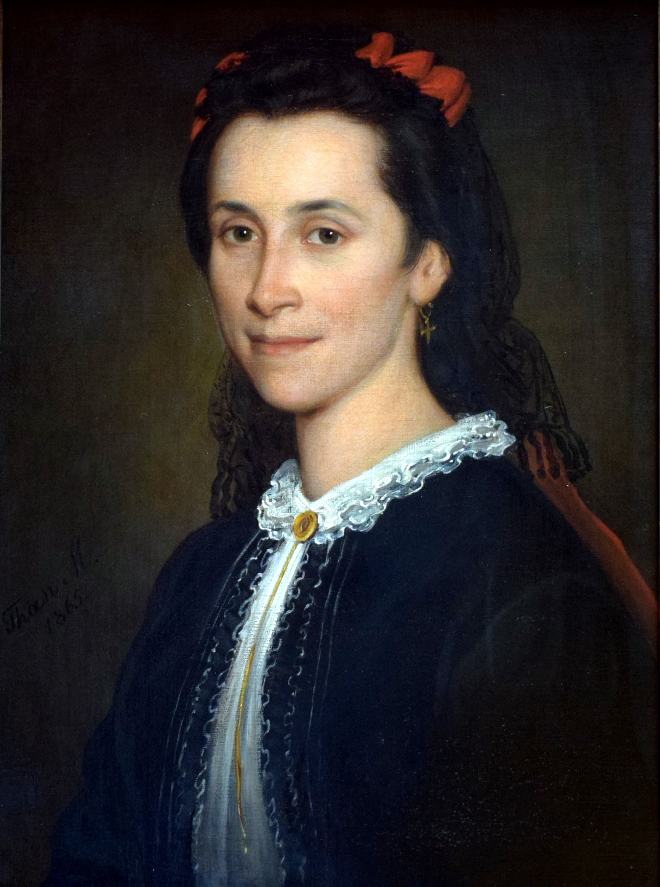 Bequeathed to the Hungarian Academy of Sciences by her husband, József Eötvös or her son, Loránt Eötvös, who were both presidents of the institution.